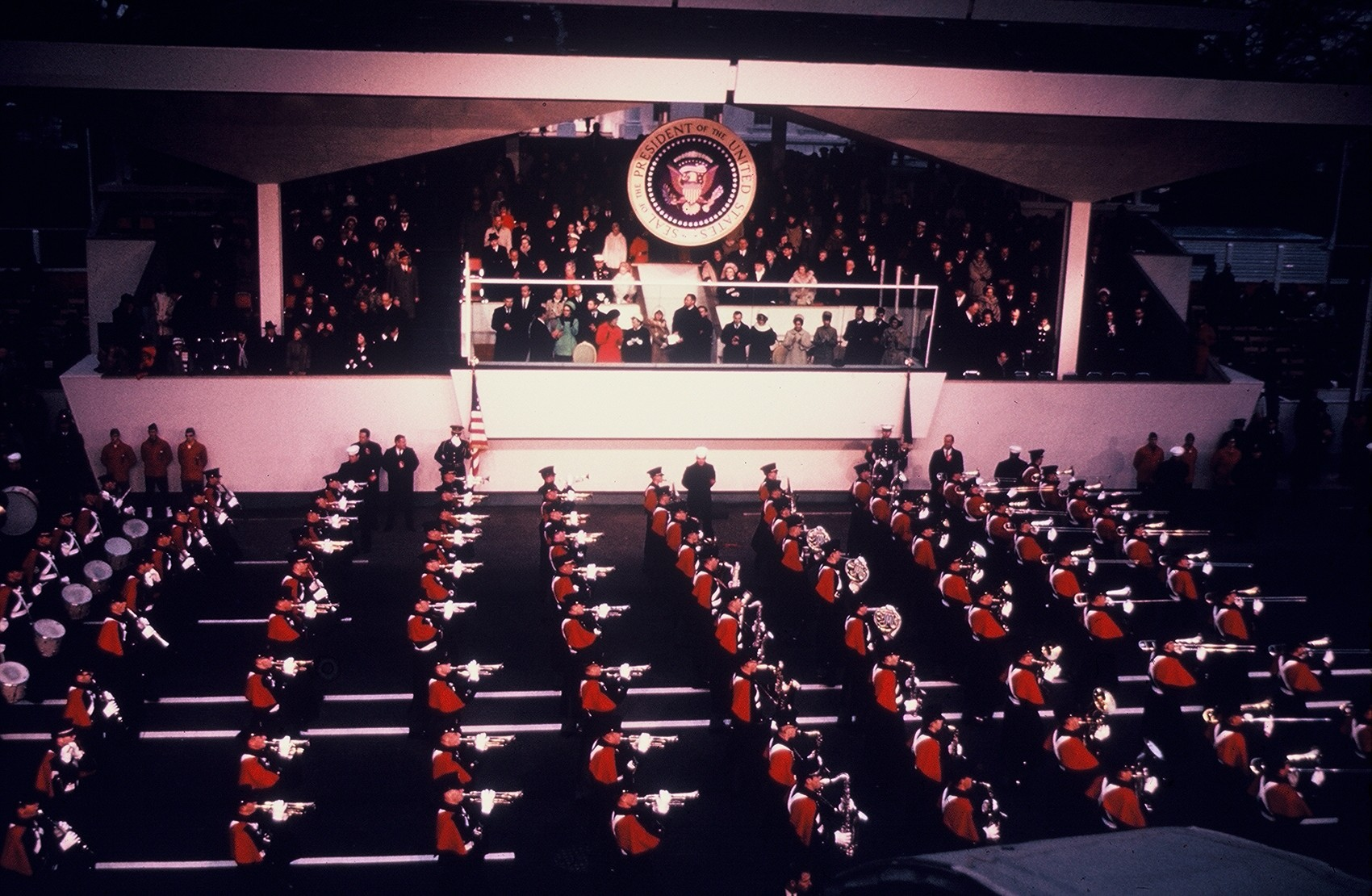 Highty-Tighties in the 1969 Presidential Inaugural Parade for Richard M. Nixon. Photo was taken by the National Photogrphic Interpretation Center, a U.S. government organization. There are no copyrights on this photo. The Highty-Tighties are the Cadet band at Virginia Tech.